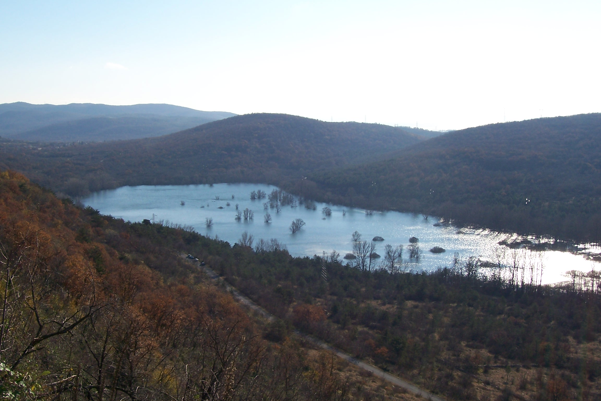 Karst landscape: an Italian Karst lake (Lago di Doberdò). This very infrequent geological phenomenon is related to deep depressions, reaching the level of underground water. The level of Karst lakes is highly variable (usually, the level is very lower, as you see from the trees); sometimes they disappear for long times (seasons-years-tens of years). Karst lakes usually have no affluent or effluent.